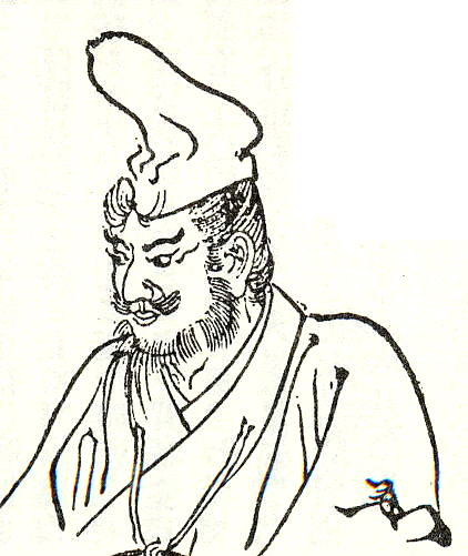 Fujiwara no Tadafumi (藤原忠文) was a Japanese politician in Heian period. This Picture was carried on the book of the name, " the imperial biographic dictionary （帝国人名辞典）".This book was published in 1907.